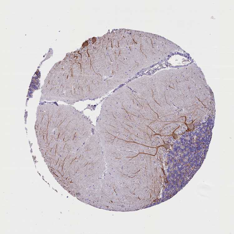 SKIDA1 expression is high in human cerebellum Purkinje cells.